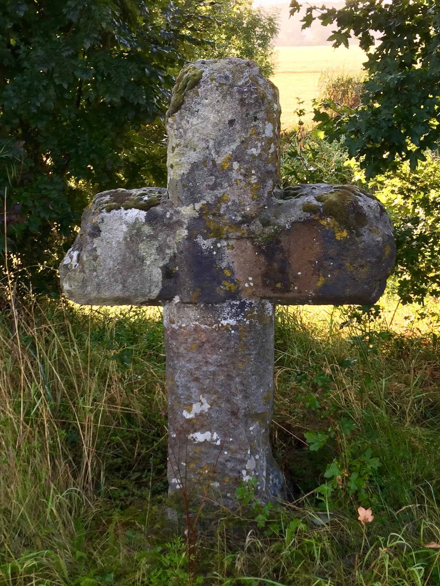 Stone-Cross in Mailach, 17. Century